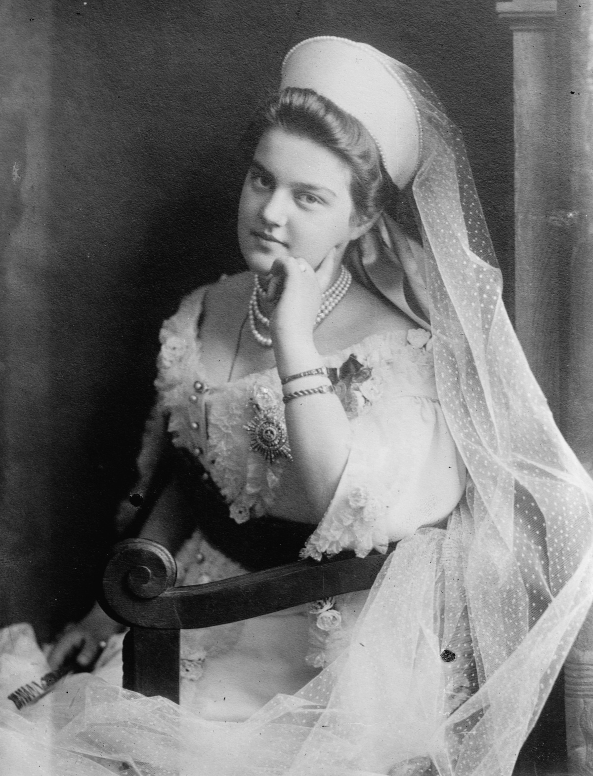 Grand Duchess Maria Pavlovna of Russia (1890–1958). Higher resolution image available on LOC website. Original image cropped and clean up somewhat.